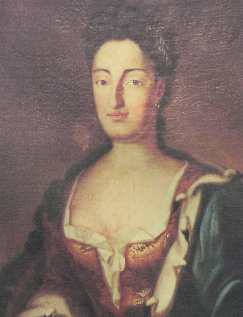 Portrait of Sophie Caroline of Brandenburg-Kulmbach (1707-1764), wife of George Albert, Prince of East Frisia